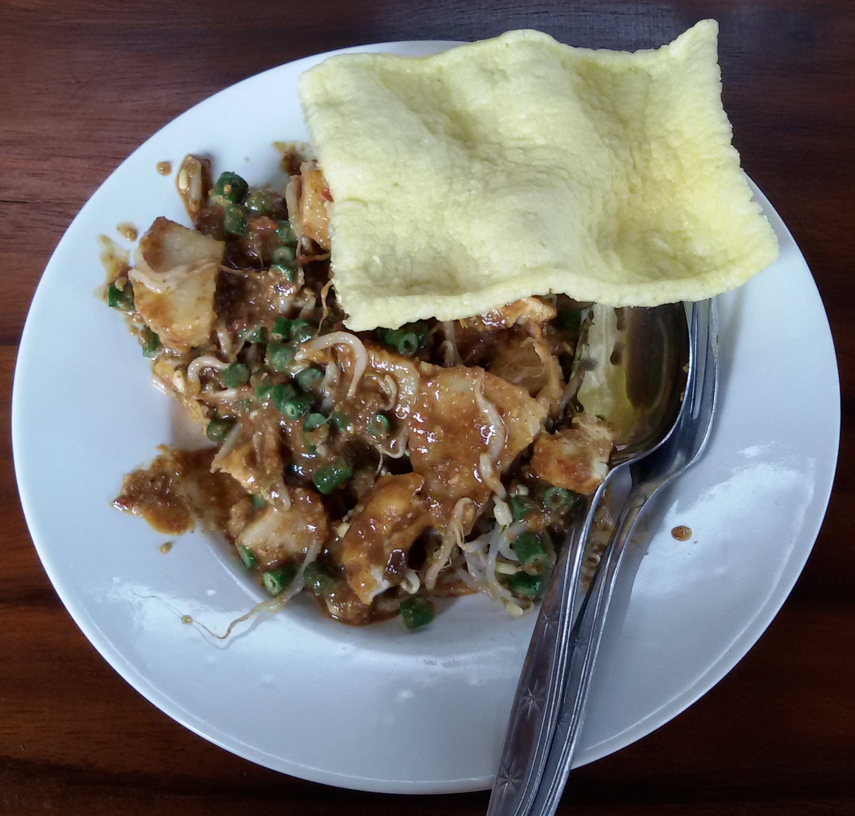 Tipat, Balinese salty vegetables salad